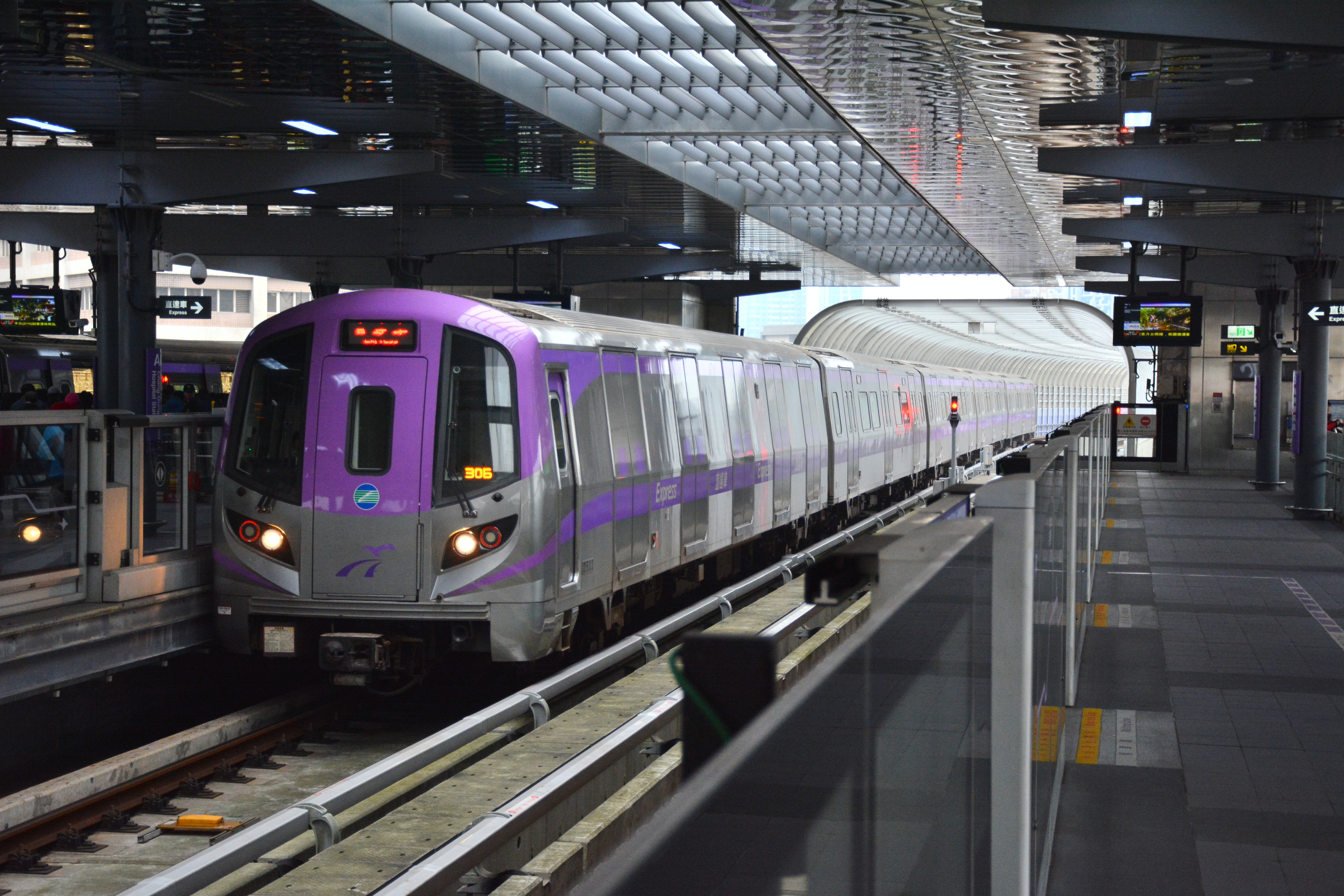 Taoyuan Metro Express Train entering Chang Gung Memorial Hospital Station.